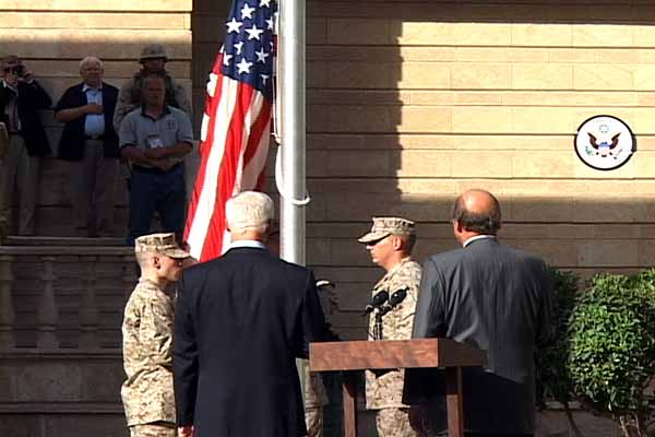 U.S. Ambassador to Iraq John D. Negroponte, right, shows honors to the colors as U.S. Marines raise the U.S. flag on the grounds of the new U.S. Embassy in Iraq on July 1.